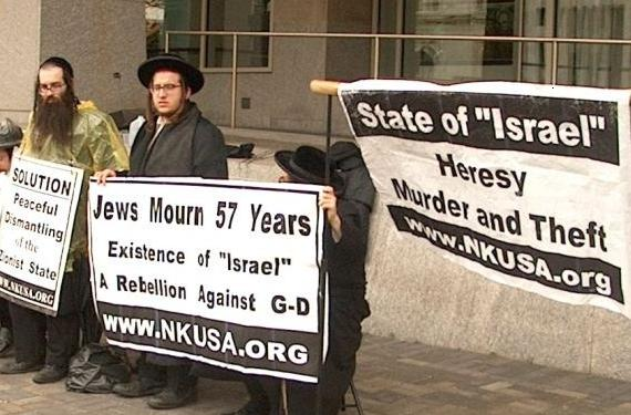 Neturei Karta members protest AIPAC conference at Washington DC convention center.